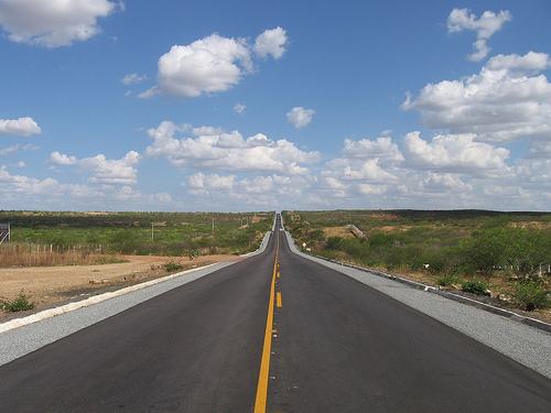 BR-304 highway in Itajá city, Rio Grande do Norte, Brazil.